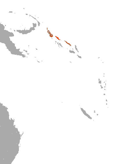 Greater Monkey-faced Bat (Pteralopex flanneryi Helgen, 2005) range (brown — extant, orange — possibly extinct) IUCN: Pteralopex flanneryi Helgen, 2005 (old web site) (Critically endangered) Note: Traditionally, a single species of Pteralopex was thought to occur in the Greater Bukida Islands, Pteralopex anceps, but there are actually two species here. Pteralopex anceps is a yellow-bellied, species that, unlike Pteralopex flanneryi, prefers upland habitats (Helgen 2005)